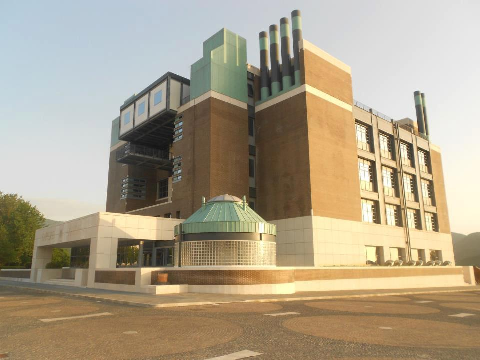 Scientific library of the University of Salerno, open in 2013, designed by Nicola Pagliara